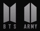 BTS official logo